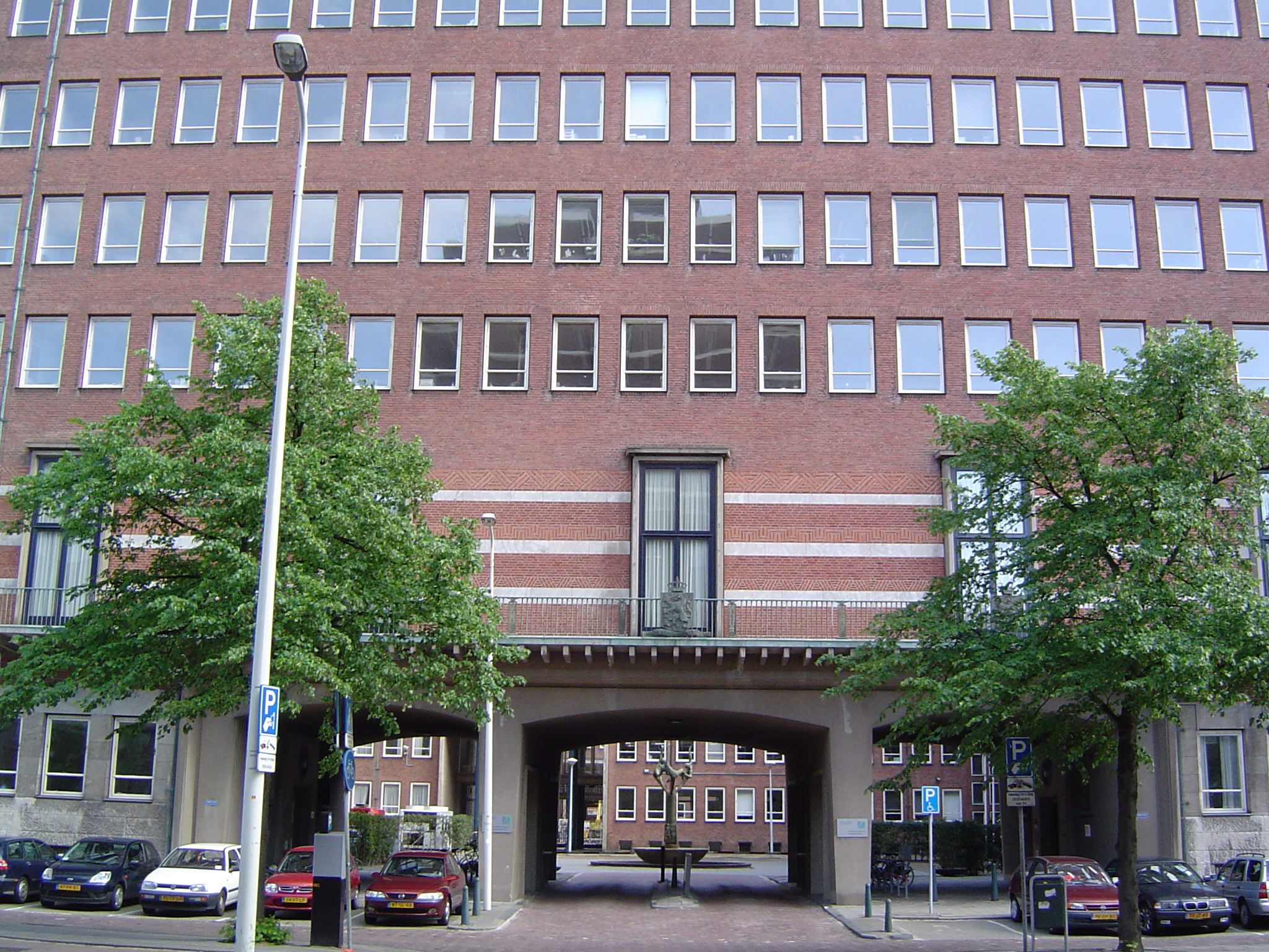 Ministerie van Landbouw, The Hague, Holland with fountain by Fred Carasso